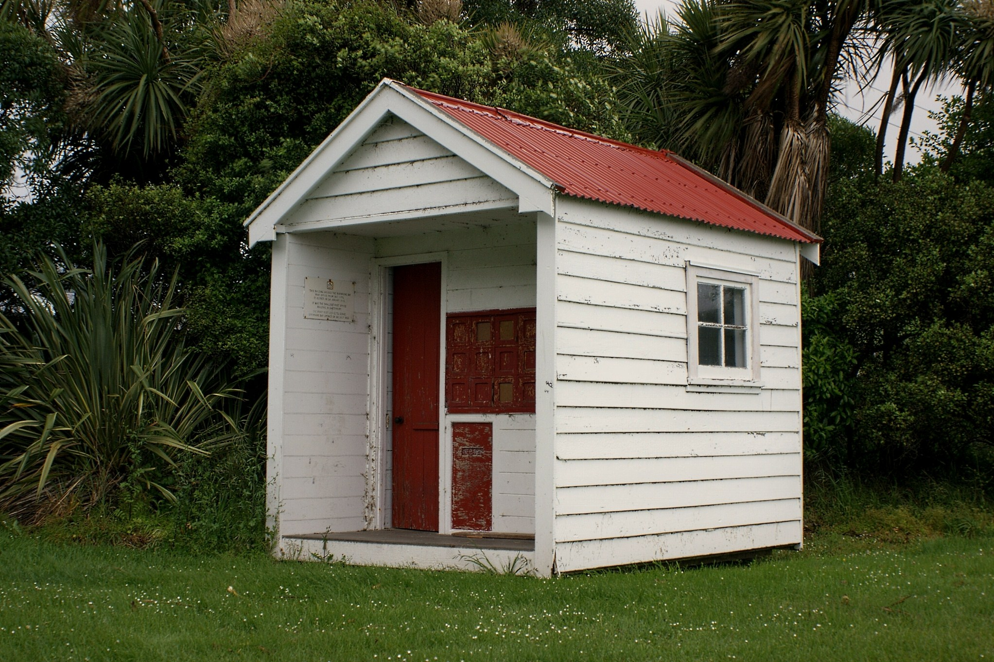 Robinsons Bay Post Office (c.1912) Between Duvauchelle and Akaroa on Banks Peninsula, you pass this tiny building on the roadside. What is it? The red panels by the door give the clue - this was the Robinsons Bay Post Office. You can still see the panel of post box doors and the posting box.